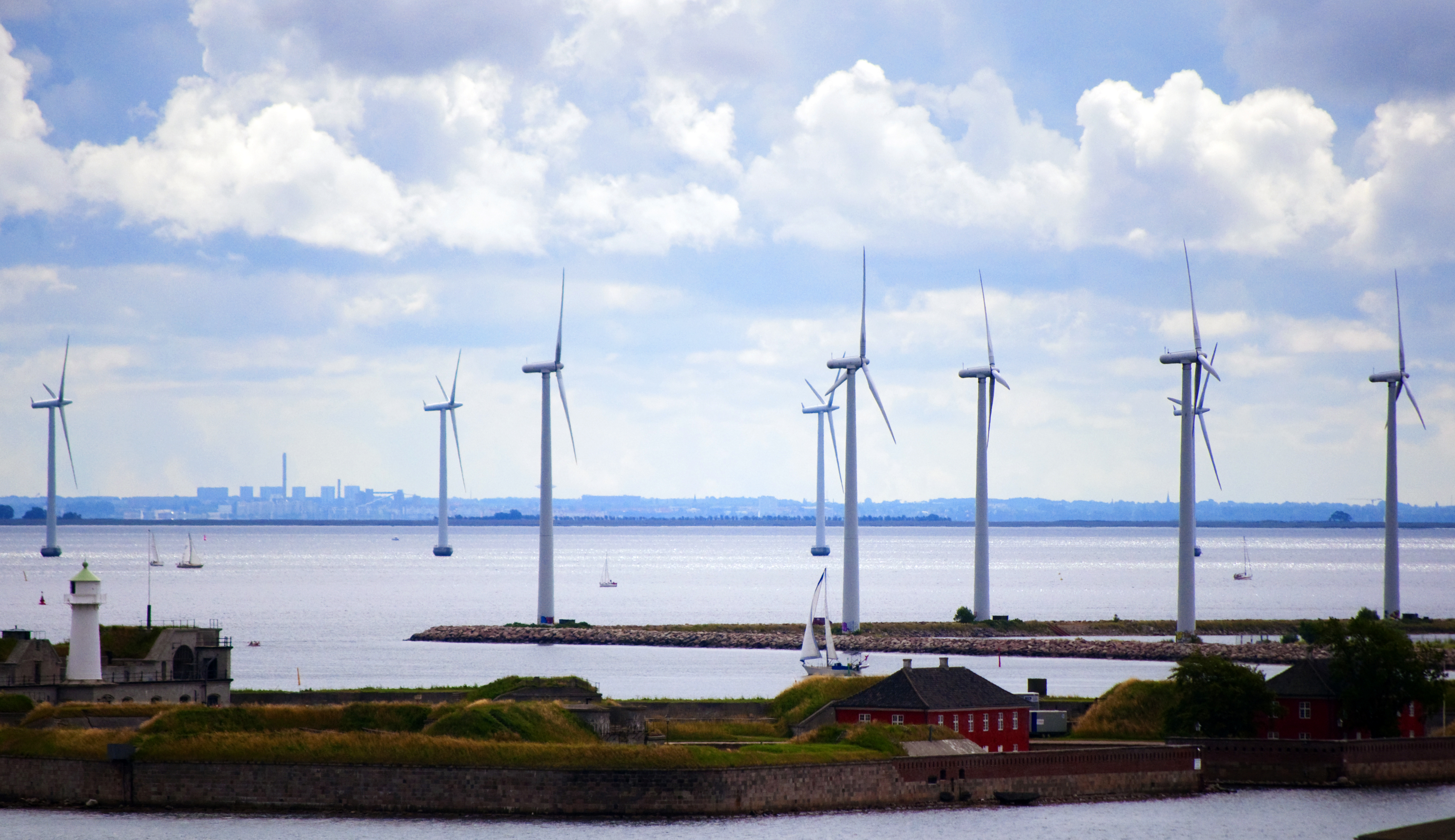 energy, 2009-07 -- Baltic Cruise, Copenhagen, denmark, wind farm, renewable energy, wind power, wind turbines